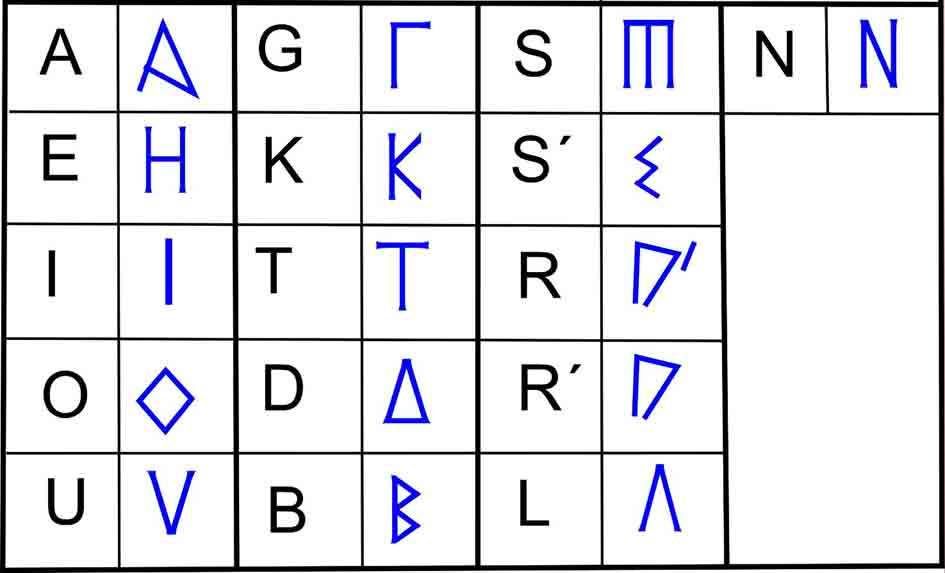 A grecoiberian alfabet.